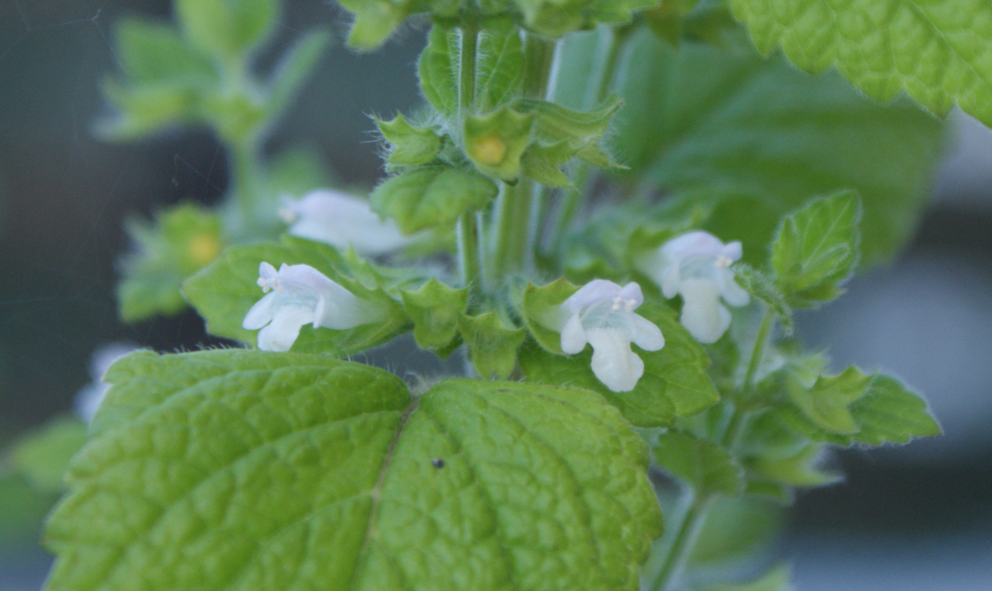 Melissa officinalis, flowers.